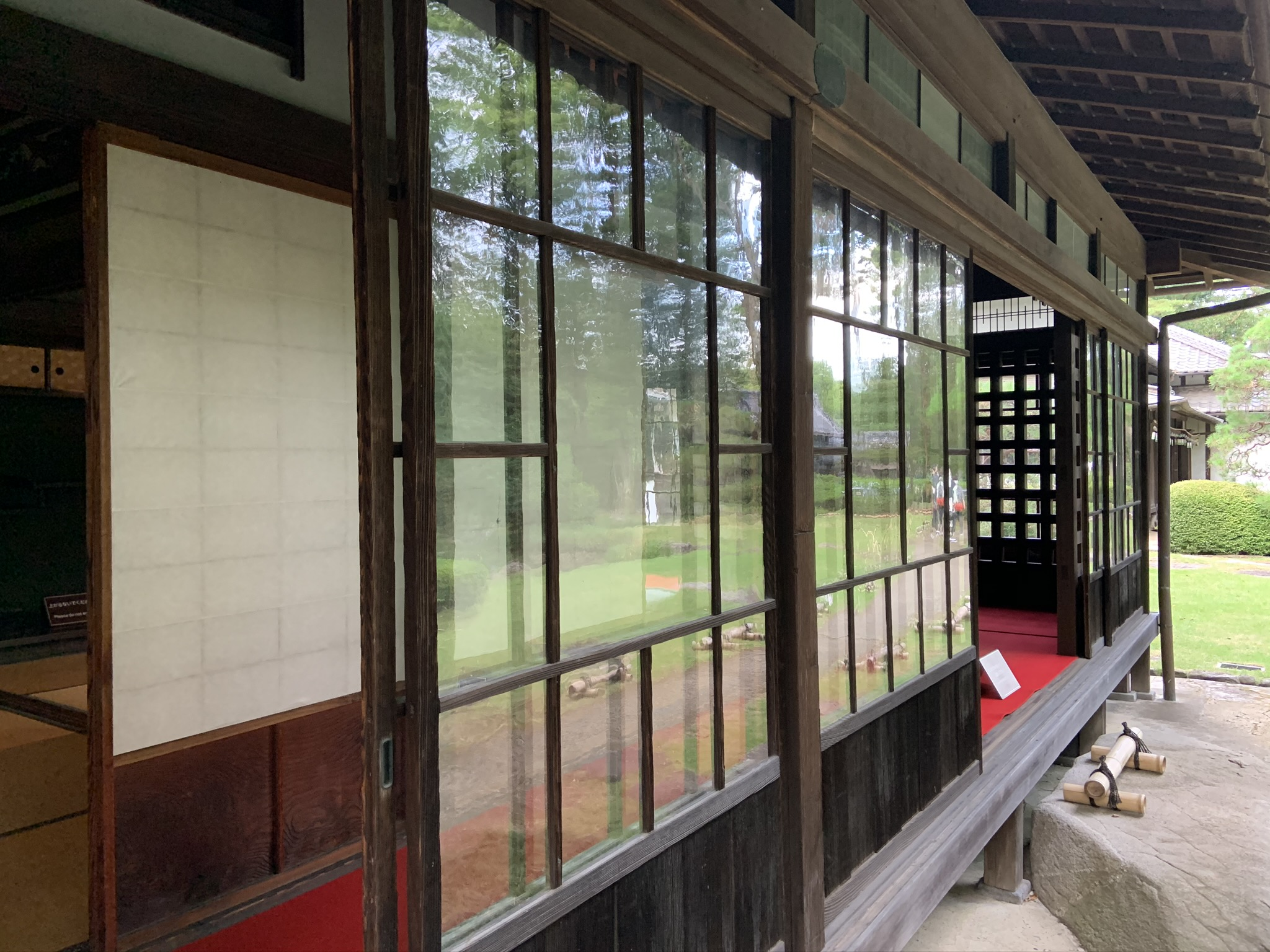 The old house of Japanese politician TAKAHASHI Korekiyo. This photo was taken at Edo-Tokyo Open Air Architectural Museum, Koganei City, Tokyo on August 23, 2020.